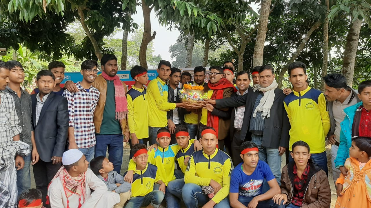 Winner of Humguti in 2020 session